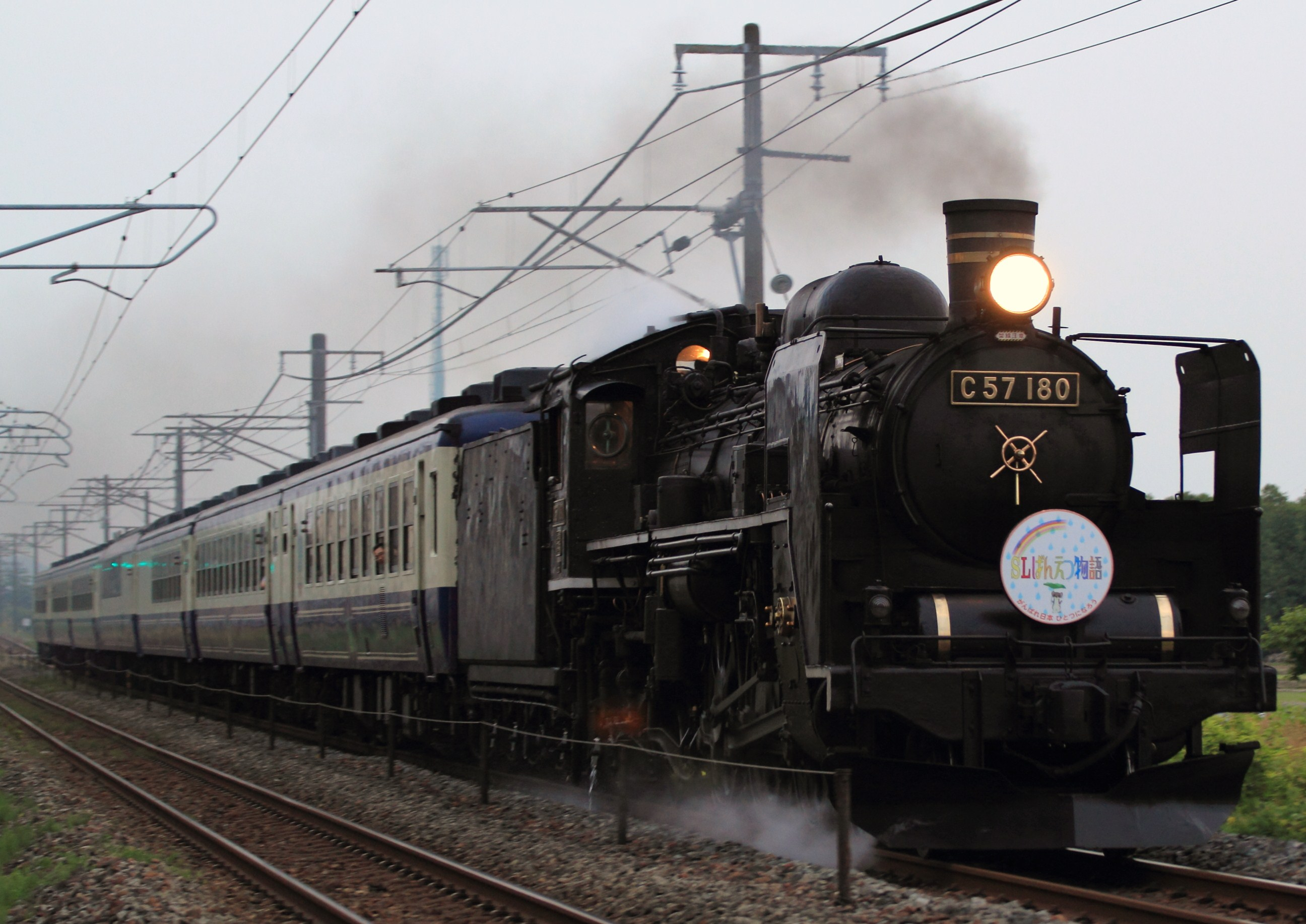 Class C57 steam locomotive C57 180 at the head of a SL Banetsu Monogatari service on the Shinetsu Main Line